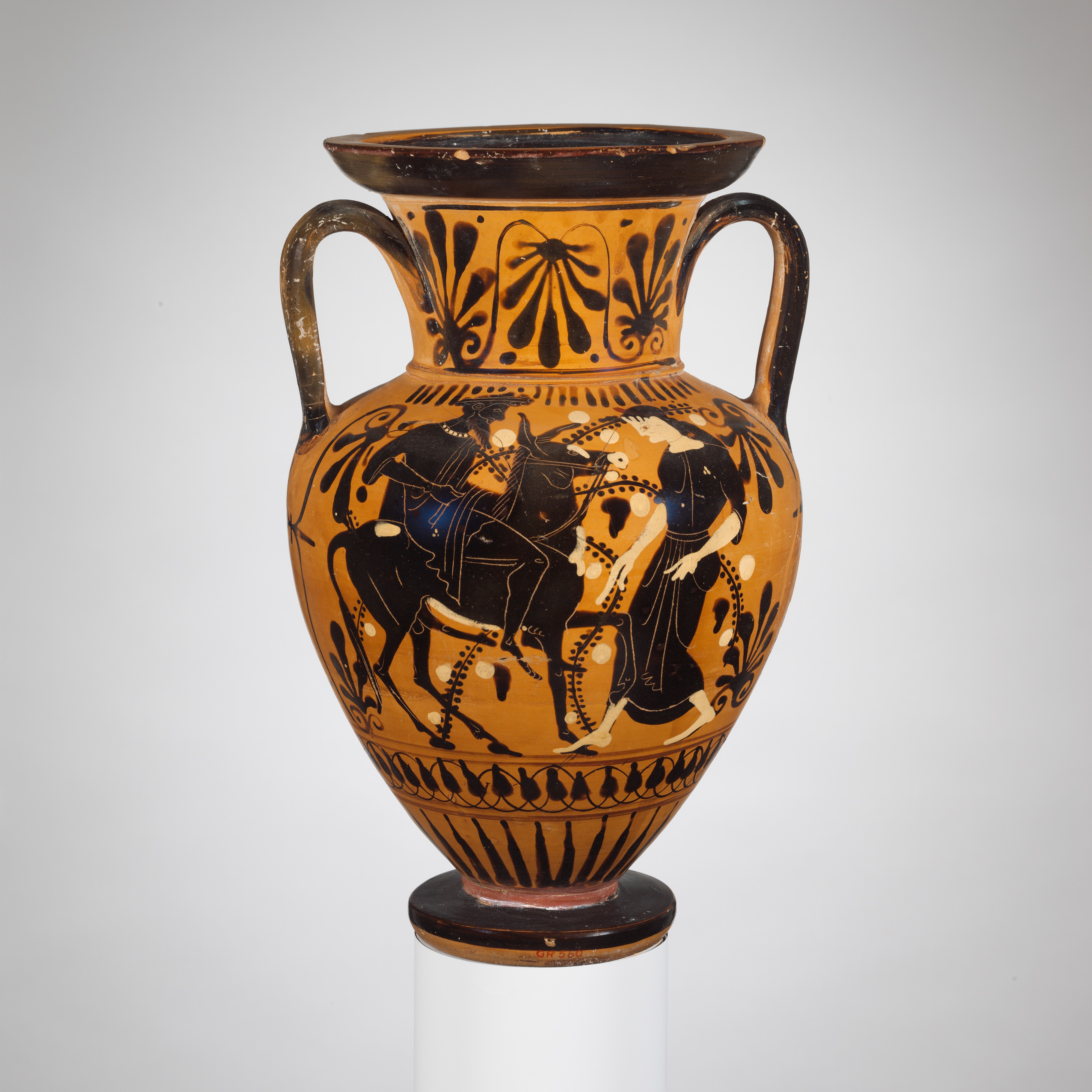 Greek, Attic; Neck-amphora; Vases